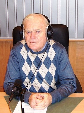 Bulgarian composer and trumpeter Toncho Rusev, shot in Bulgarian National Radio.